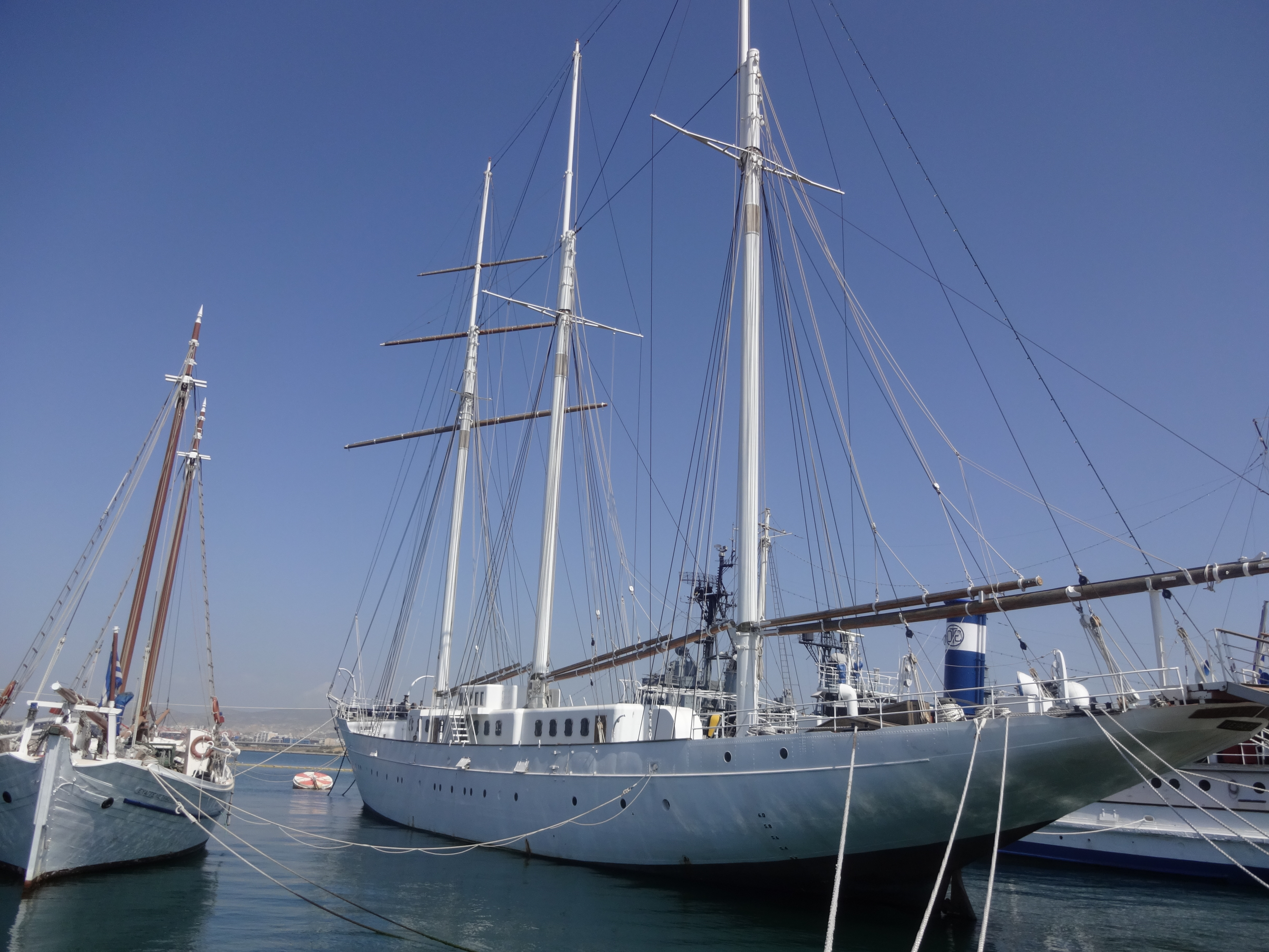 Greek training sail boat "Eugenios Eugenidis" (presently museum) in Flisvos, Athens, Greece